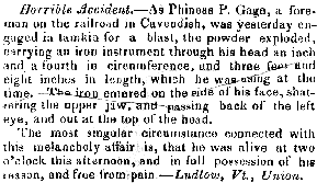 Boston Post notice of the accident of Phineas Gage, reprinted from the Ludlow (Vermont) Free Soil Union